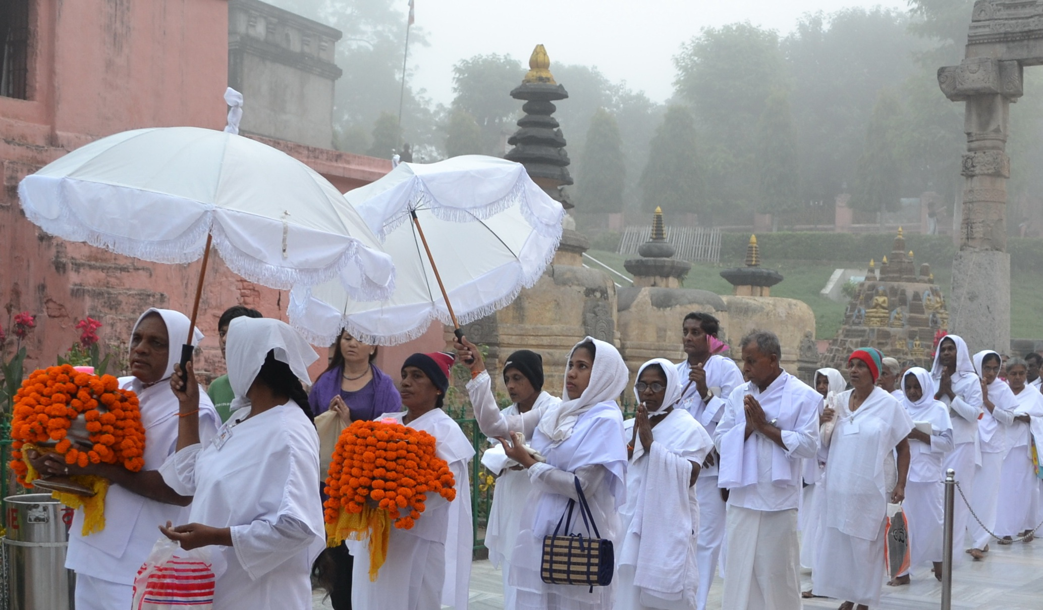 Bodh Gaya, India.